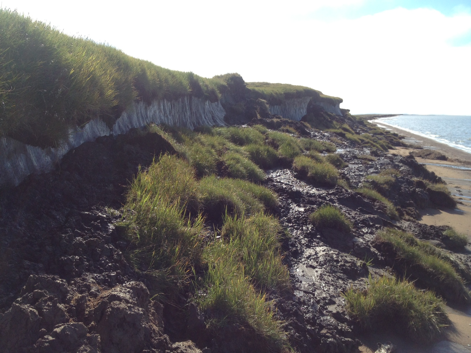 Rapidly thawing Arctic permafrost and coastal erosion on the Beaufort Sea, Arctic Ocean, near Point Lonely, AK. Photo Taken in August, 2013